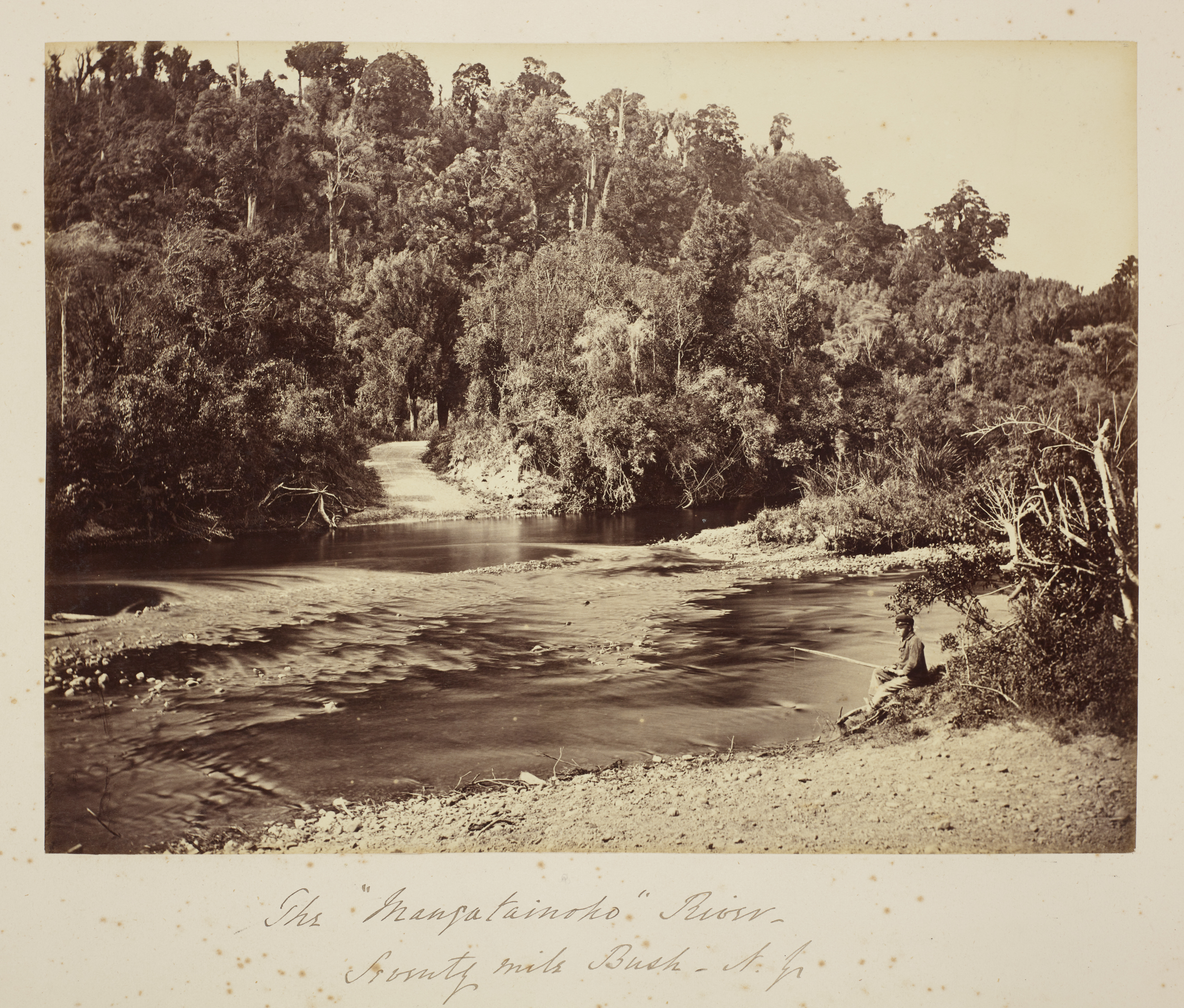 Title The Mangatainoko River, Seventy Mile Bush, N.Z. From the album: Views of New Zealand Scenery/Views of England, N. America, Hawaii and N.Z. Production Unknown (photographer), circa 1875, Wairarapa Materials silver, printing-out paper, albumen Classification albumen prints, black-and-white prints Registration number O.011675